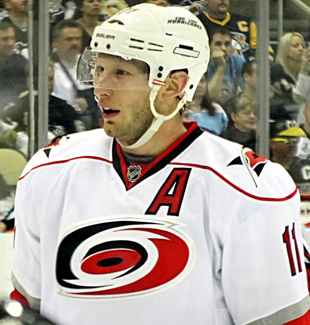 Carolina Hurricanes forward Jordan Staal lines up against the Pittsburgh Penguins, April 27, 2013 at Consol Energy Center in Pittsburgh, PA.